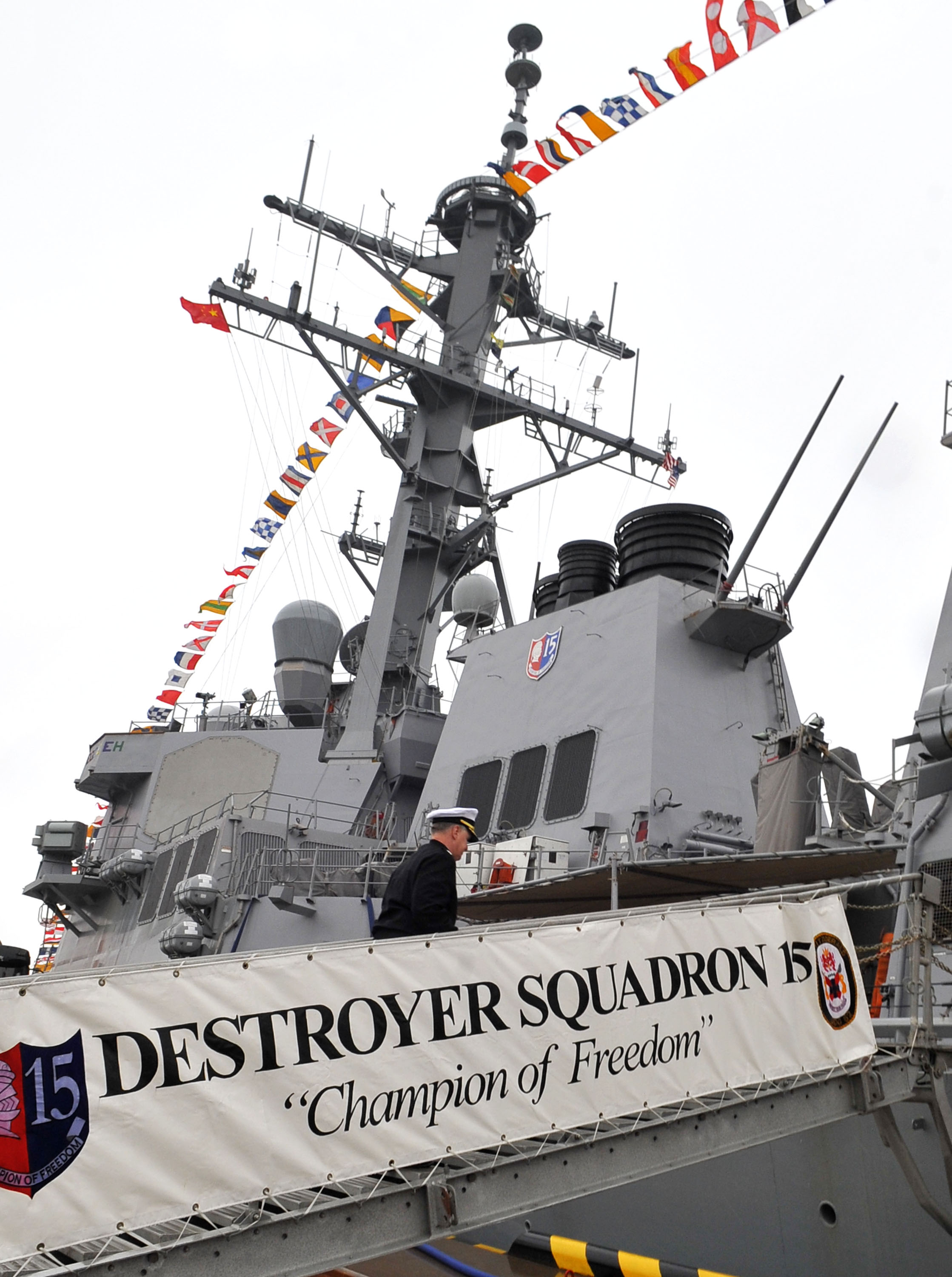 QINGDAO, China (April 20, 2009) Chief of Naval Operations (CNO) Adm. Gary Roughead boards the Arleigh Burke-class guided-missile destroyer USS Fitzgerald (DDG 62) while visiting with senior PLA naval leadership in Qingdao, China. Roughead visited China to participate in the 60th anniversary of the founding of the PLA Navy and to foster naval and military relationships between the two nations and explore areas for enhanced cooperation. (U.S. Navy photo by Mass Communication 1st Class Tiffini M. Jones/Released)